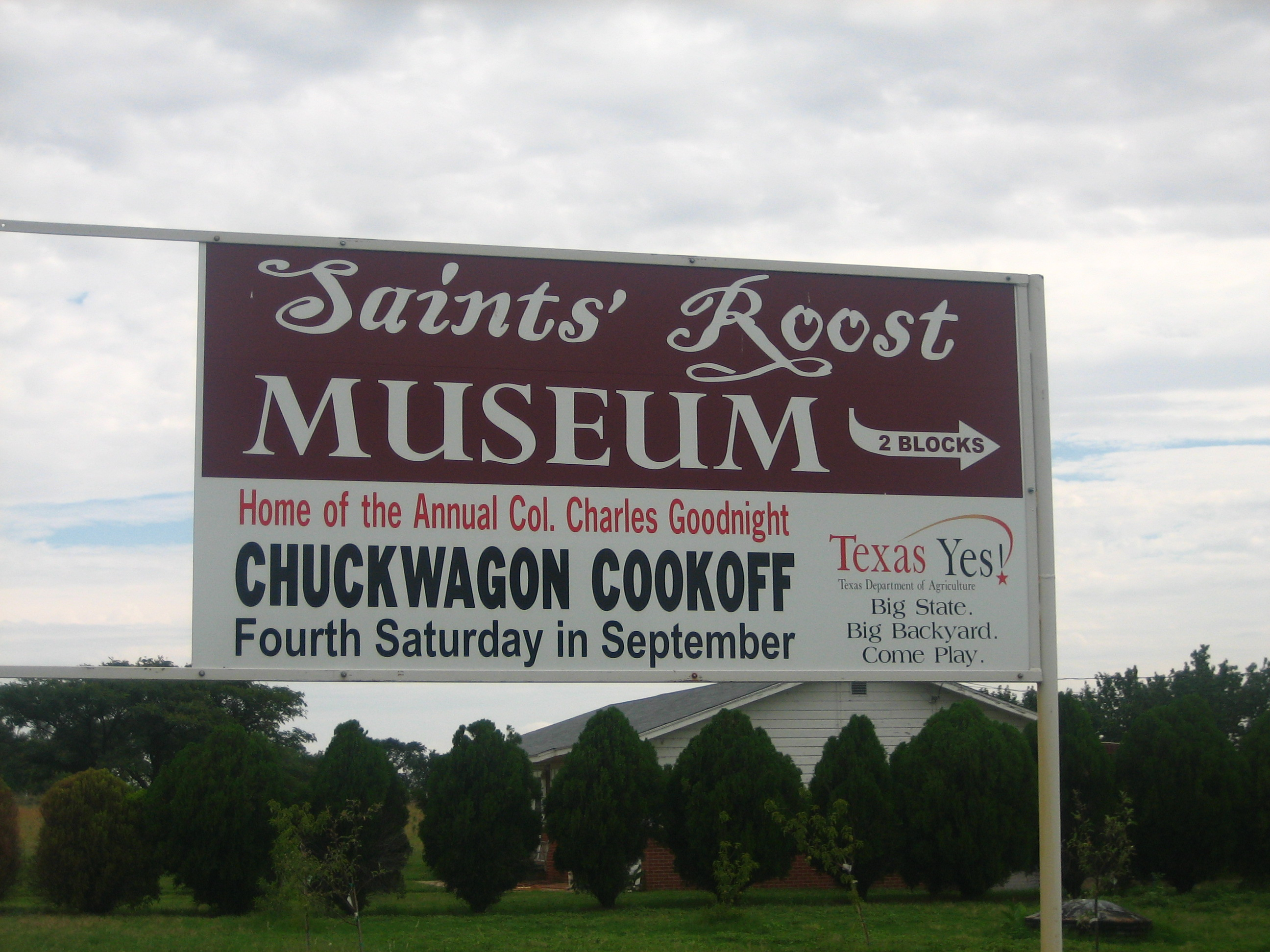 I took photo on July 15, 2008.Billy Hathorn (talk) 22:43, 22 July 2008 (UTC)